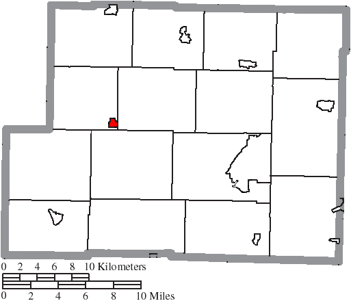 Map of the municipal and township boundaries of Harrison County, Ohio, United States, as of the 2000 census, with the location of the village of Deersville highlighted. Township borders are shown only in unincorporated areas in order to differentiate incorporated and unincorporated areas more clearly.